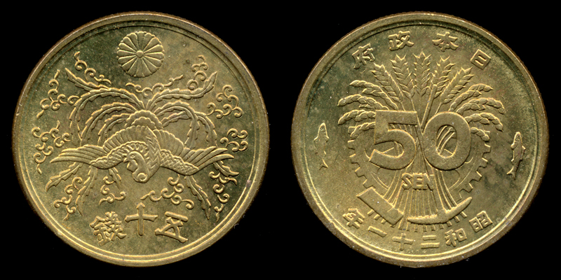 50sen-S21